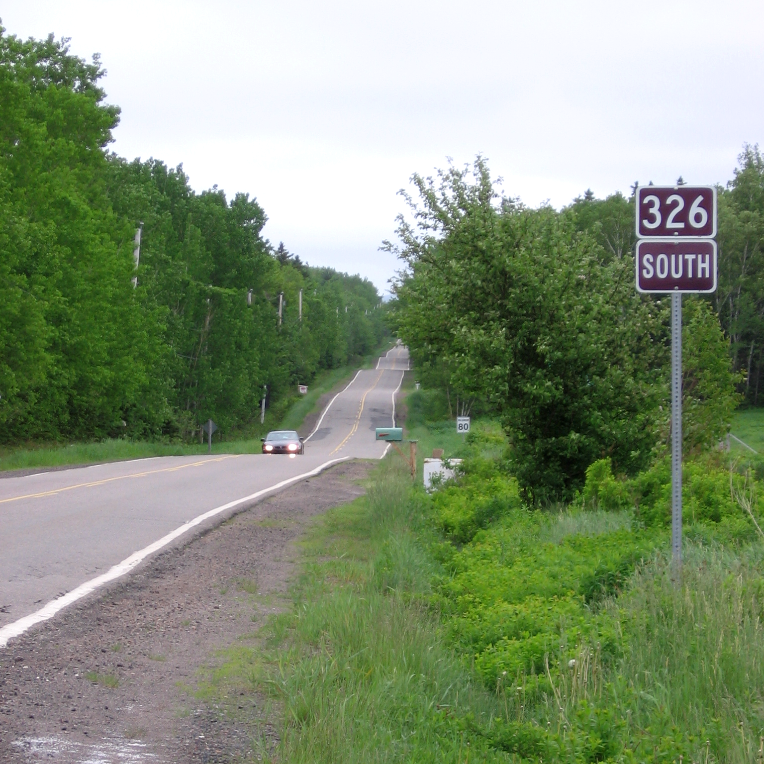 Highway route sign - Route 326, Colchester County, NS